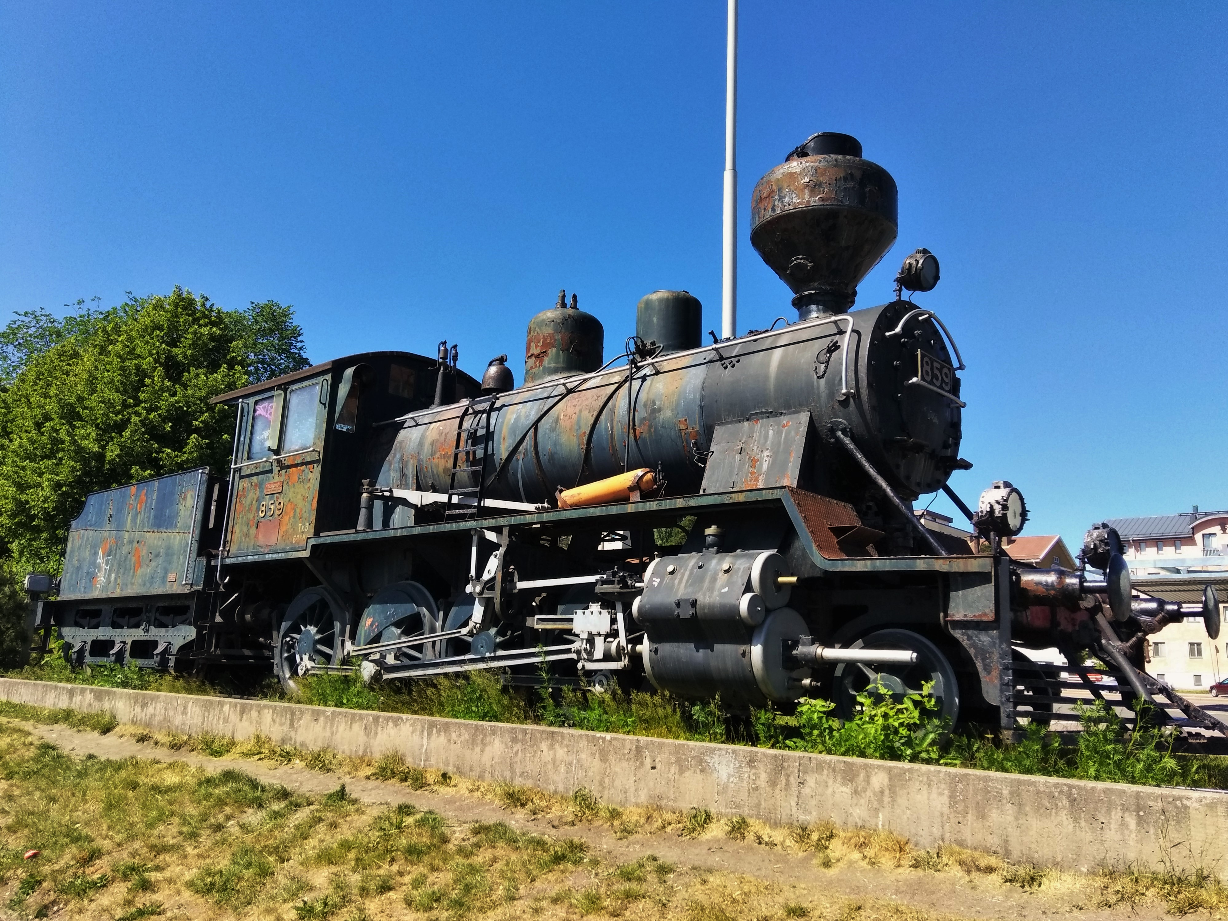 The steam locomotive monument on the train station Kouvola, Finland. Model Tk3, manufactured in 1929 by Locomo.